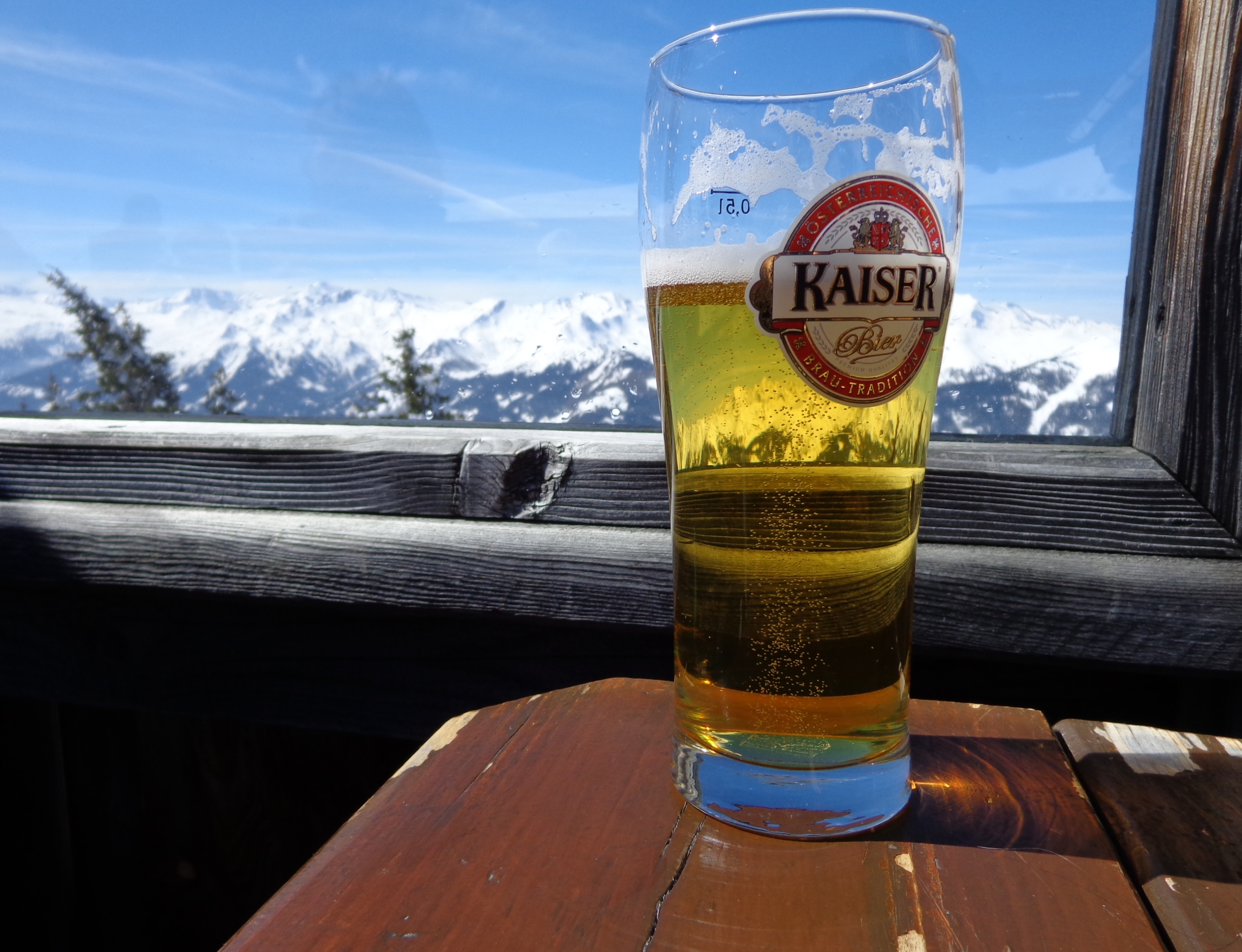 Austrian Kaiser Bier served in the Austrian Alps.